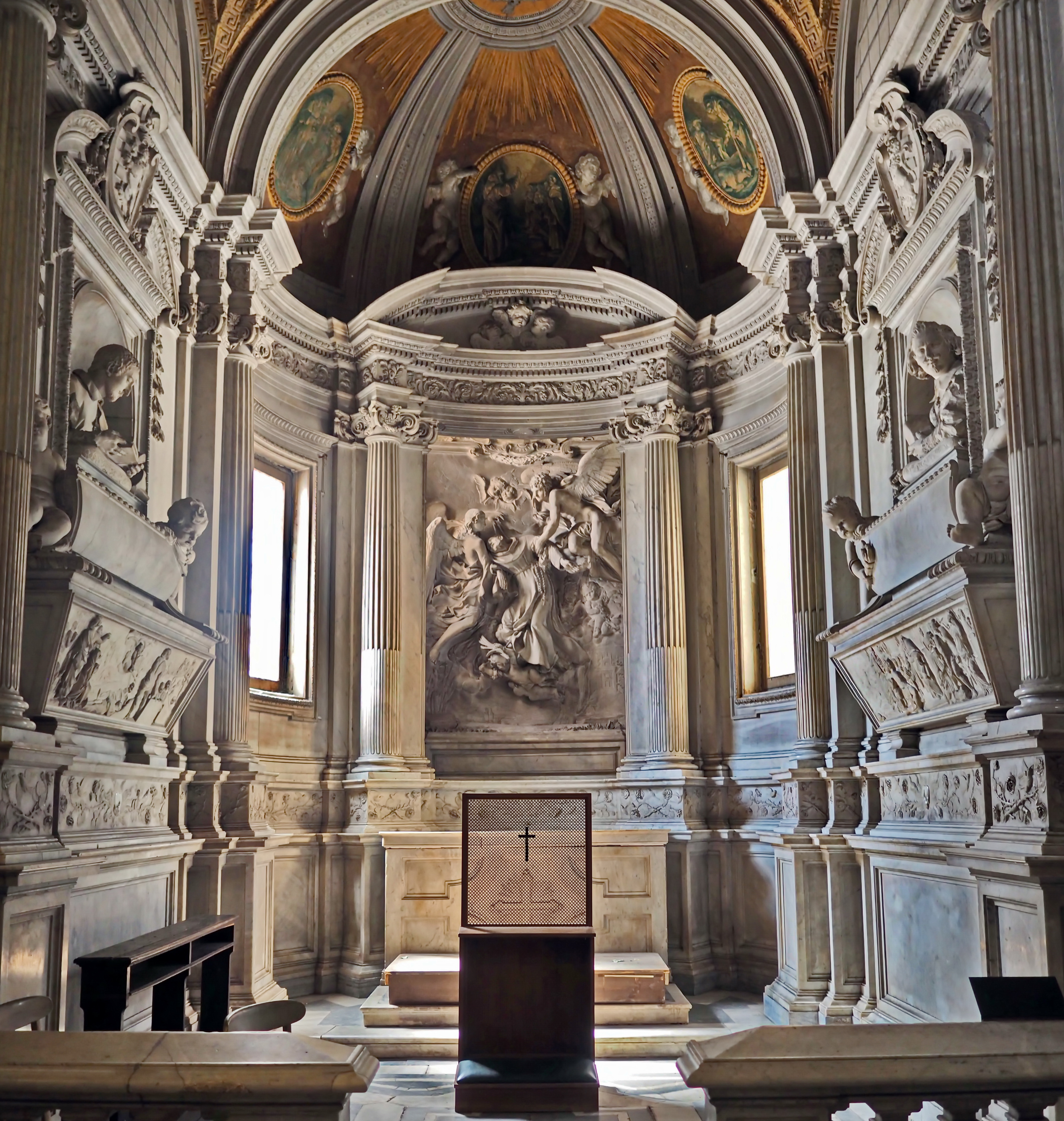 San Pietro in Montorio (Rome); Cappella Raimondi